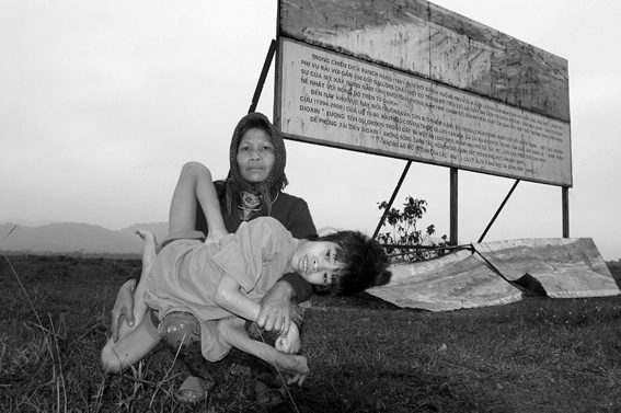 Valley of A Luoi. Kan Lay, 55 years old, and her son, Ke Van Bec, 14 years old, physically and mentally handicapped, pose in front of the billboard denouncing the operation Ranch hand. According to the photographer Alexis Duclos, the photo of Kan Lay and her son was produced for a dedicated photo essay on agent organge. The mother and son posed voluntarily for the photo because it was clearly understood that she wanted to show to the world the effects of chemical weapons such as agent orange, particularly on her son. Hence, the usage of the picture on Wikipedia, or any other public media, seems to comply with the woman's intentions when the photograph was taken, and thus most likely does not violate personality rights. The photographer has provided this additional information: Vietnam, December 2004, Valley of A Luoi. Not far from the road to Ho Chi Minh, Kan Lay, a 55-year old woman, holds her 14-year old physically and mentally handicapped son, Ke Van Bac, in her arms. During the [Vietnam] war, Kan Lay lived in the region of A Luoi. “I was in the forest, I saw planes throw powder on us, it stung our eyes, burned our skins...” Since that day, her husband and three of her children have died of cancer. To help illustrate the photo, mother and son pose in front of a billboard denouncing operation “Ranch Hand” installed at the former military airport A Sho, in the valley of A Luoi. Photo and the above text provided by Alexis Duclos (